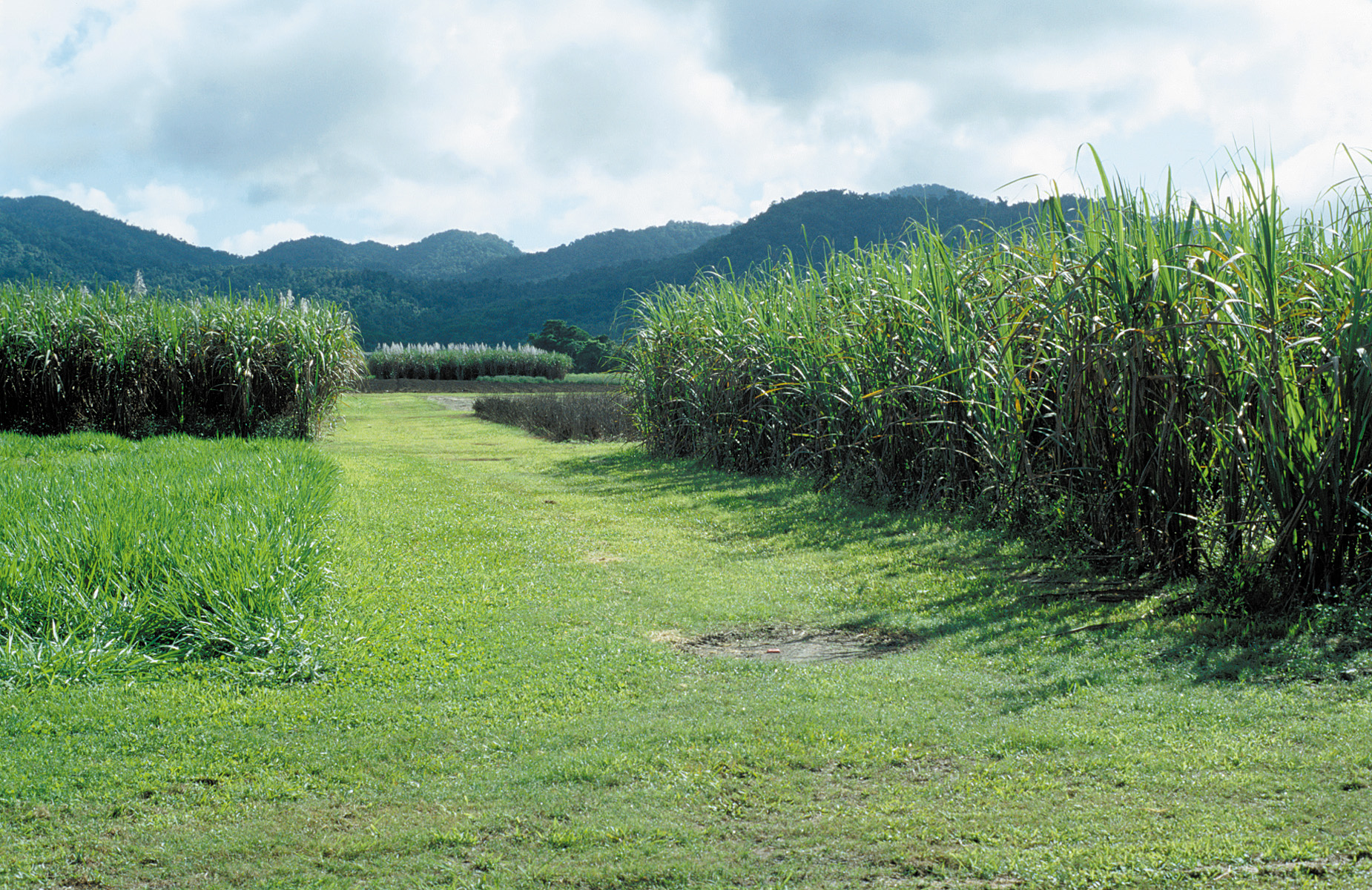 View of Sugar Yield Decline Joint Venture, crop rotation experiment, Feluga (near Tully), Queensland, 2007